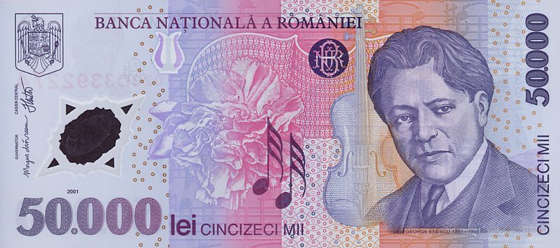 50 000 Romanian leu from 2001 - obverse